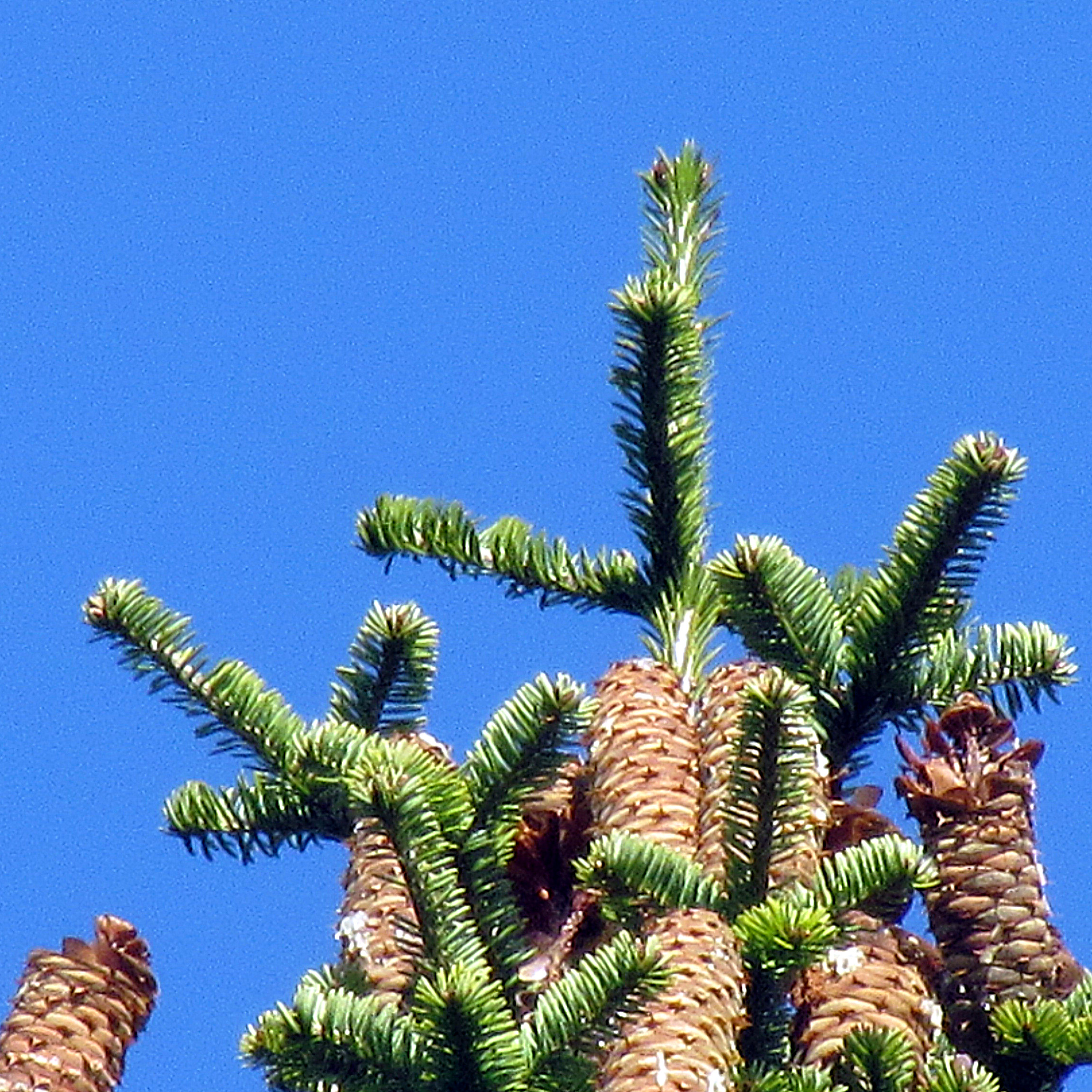 Abies alba cones (Goc mountain - Serbia)